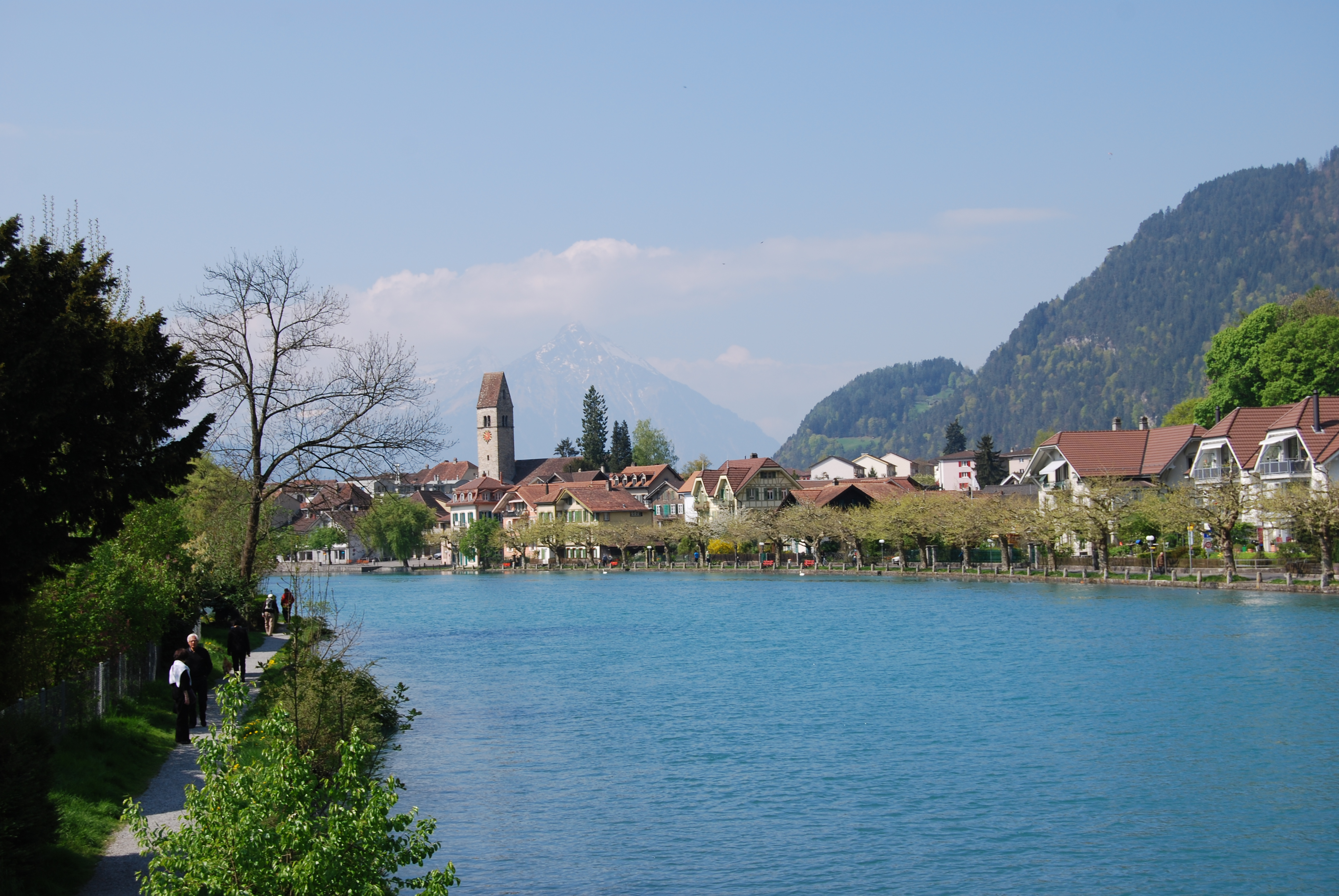 Unterseen, canton of Bern, Switzerland